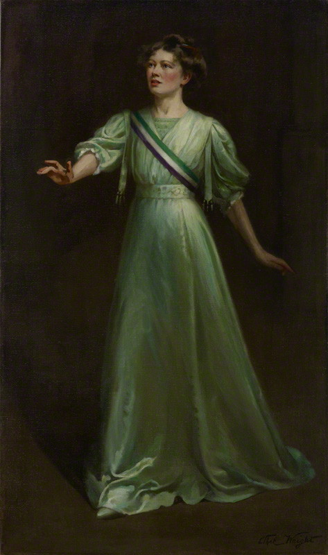 Dame Christabel Pankhurst oil on canvas, exhibited 1909 64 in. x 38 1/8 in. (1625 mm x 967 mm)